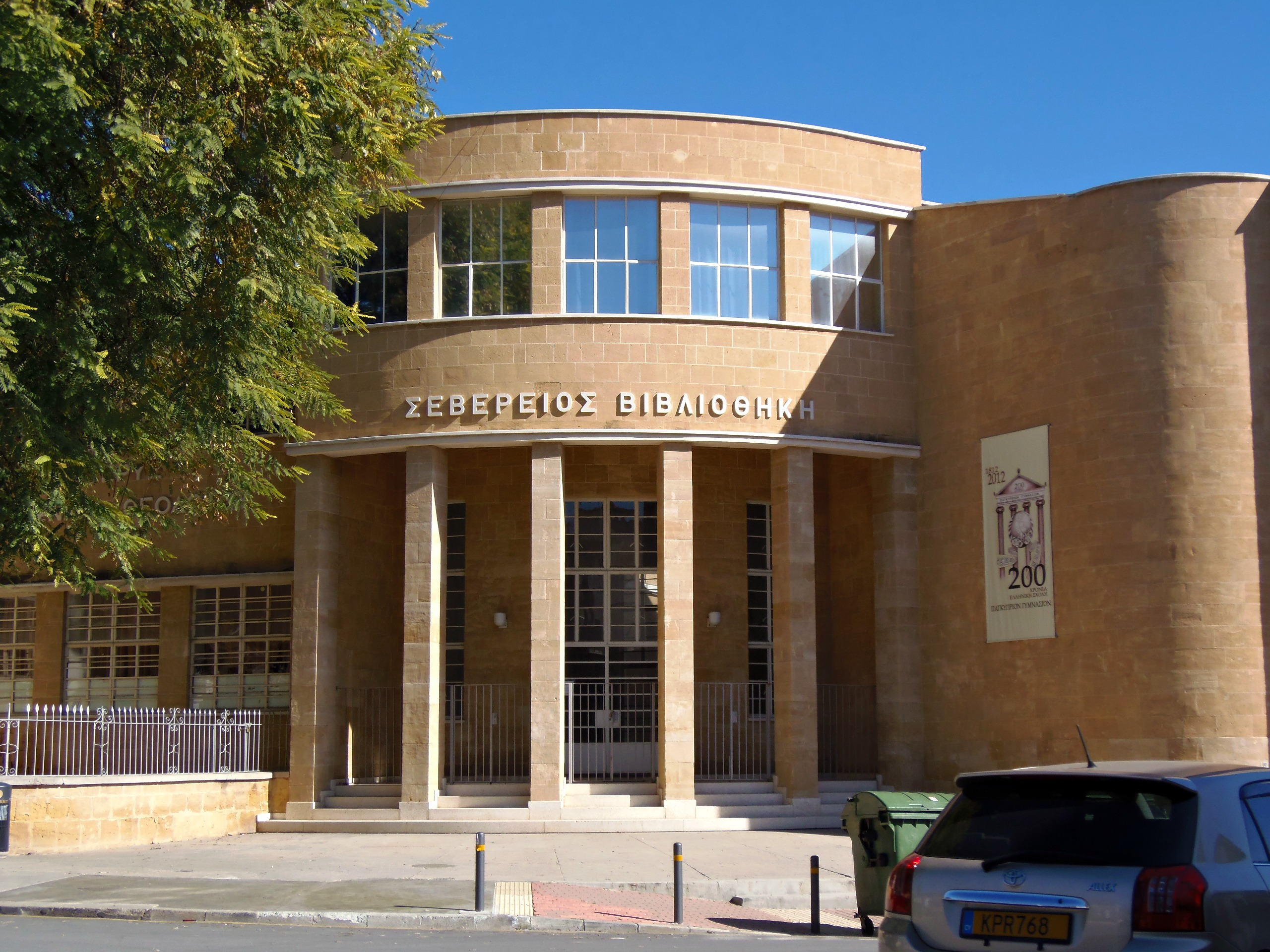 "Severios" Library in the Pancyprian Gymnasium in Nicosia, Cyprus